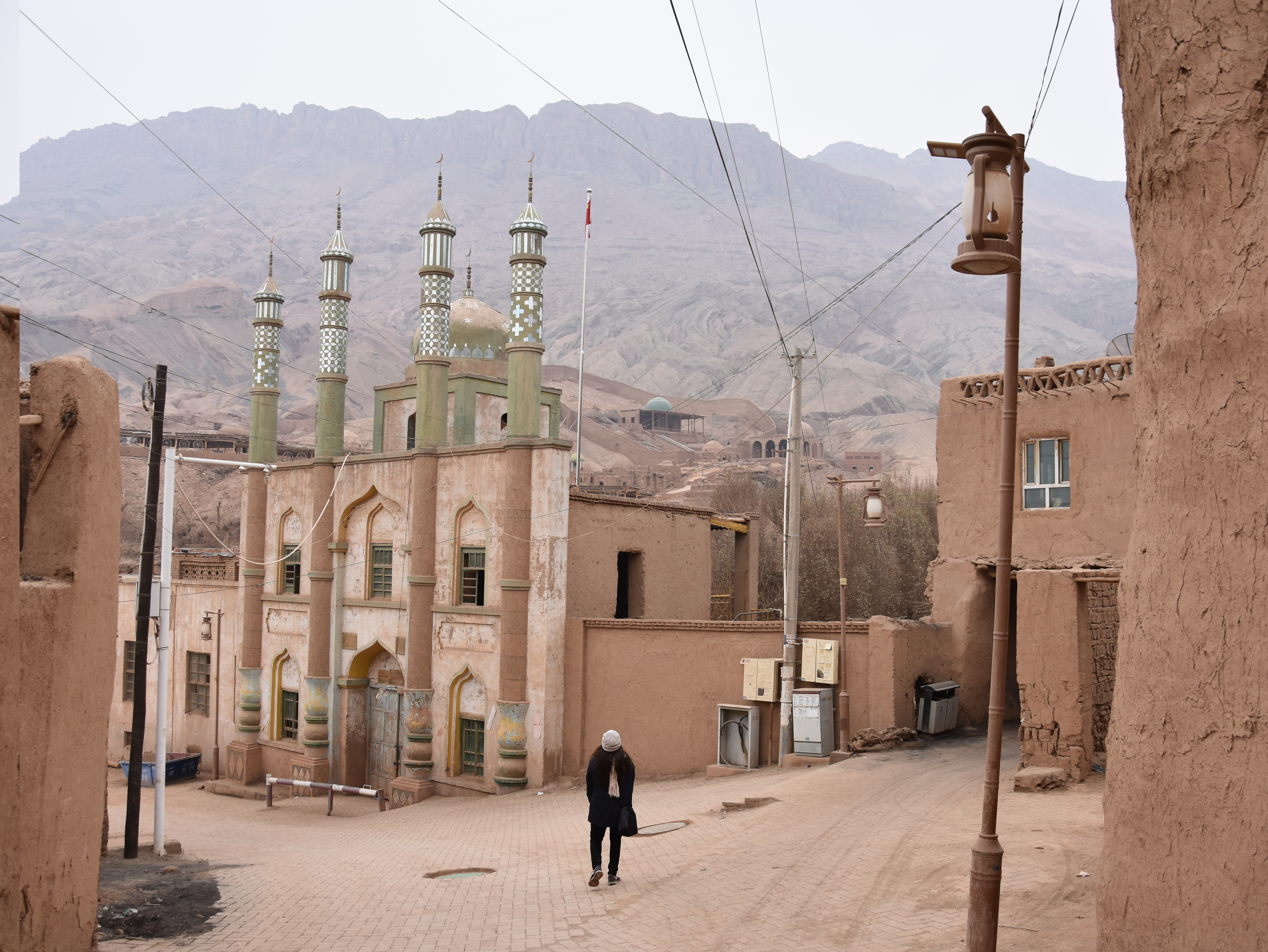 This is one of the mosques of Tuyoq village